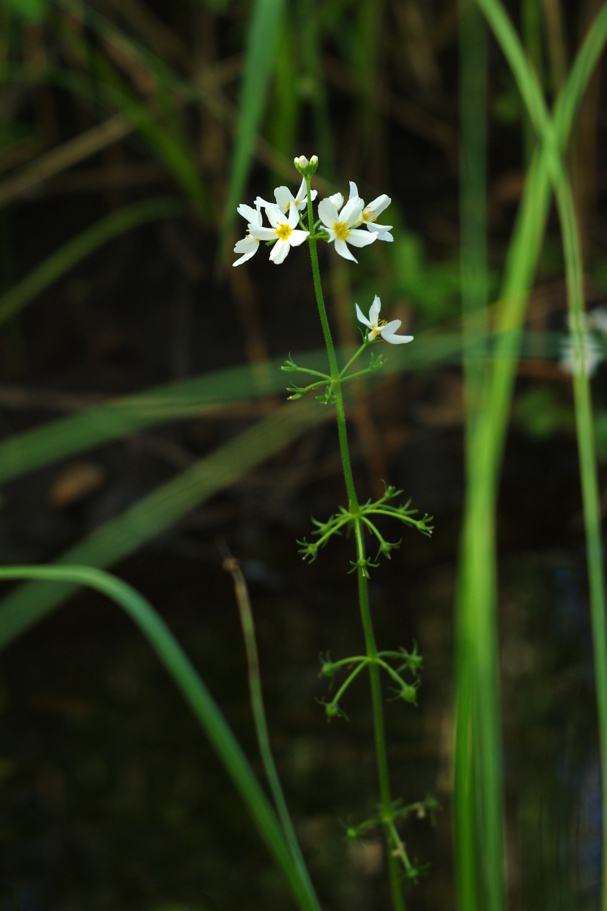 Hottonia palustris in Estonia.